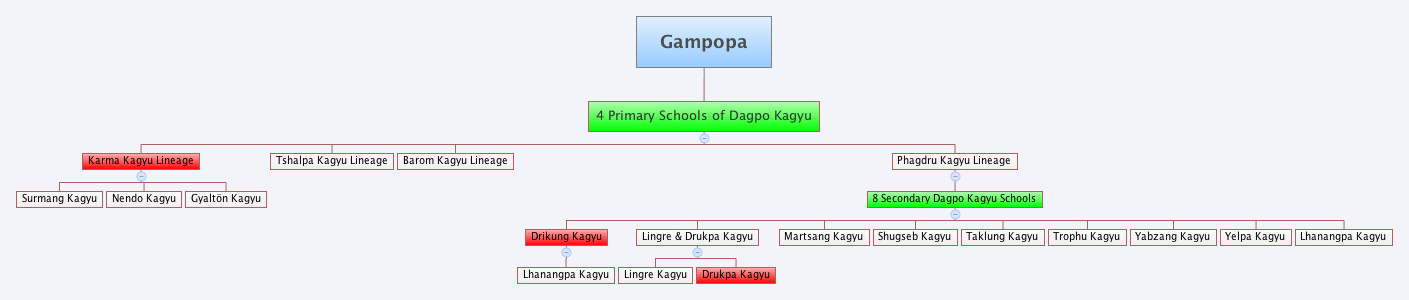 A Hierarchical tree describing the different branches of the Kagyu school of Buddhism